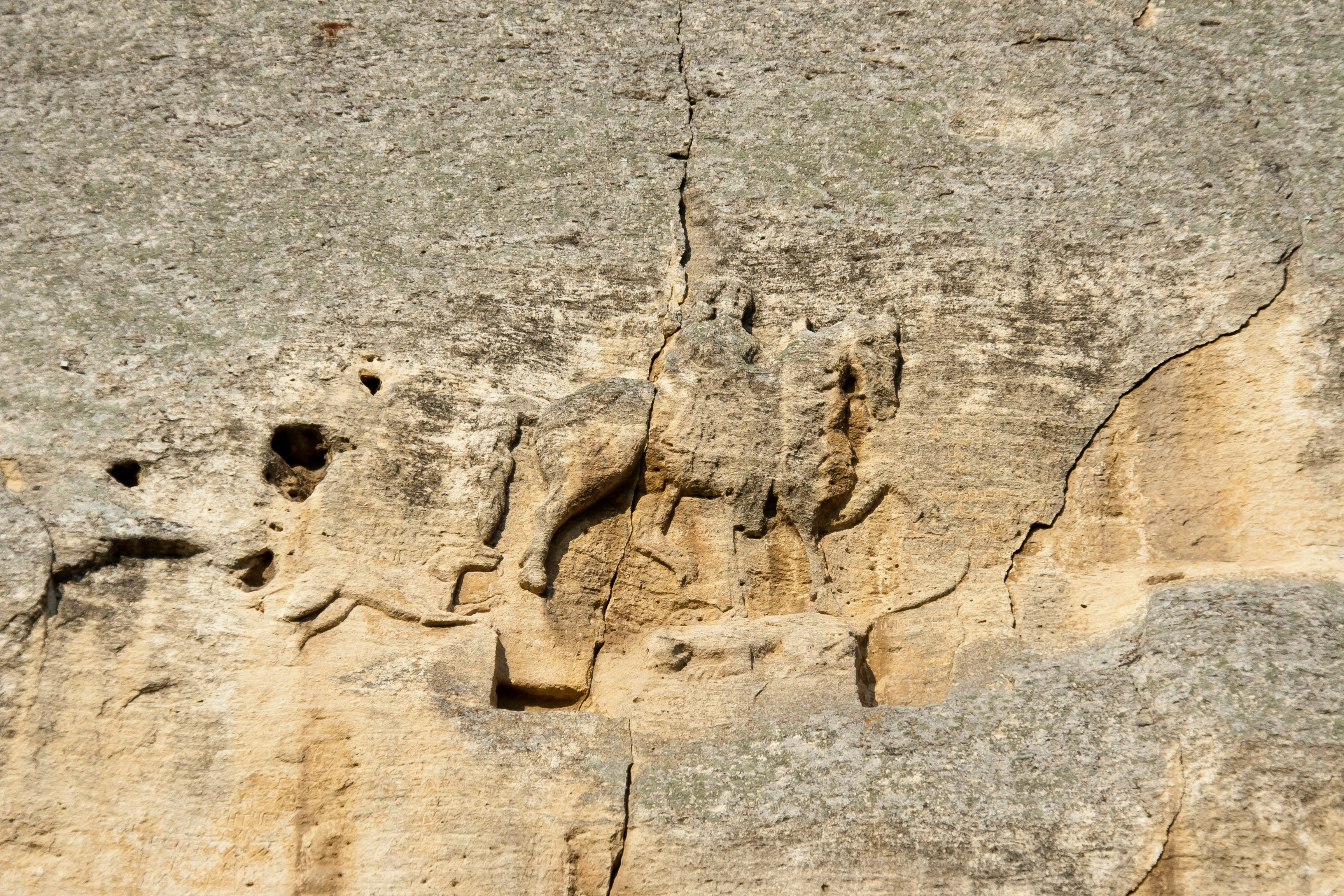 Madara Rider is an early medieval large rock relief carved on the Madara Plateau east of Shumen in northeastern Bulgaria, near the village of Madara.